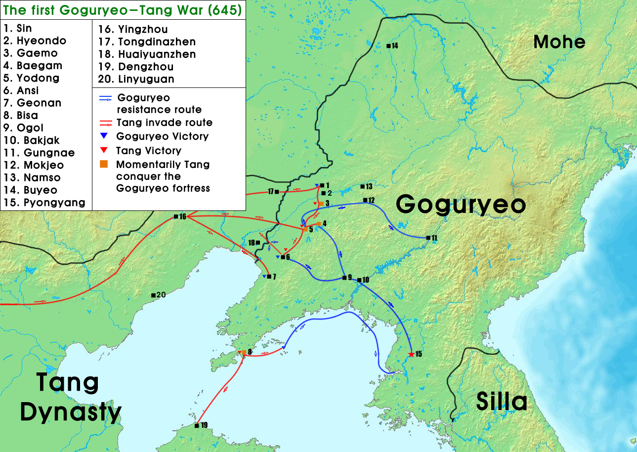 Map showing actions in the First Goguryeo-Tang War.